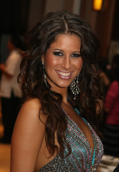 Miss Netherland 2007 - Melissa Sneekes in Miss World 07, Sanya, China